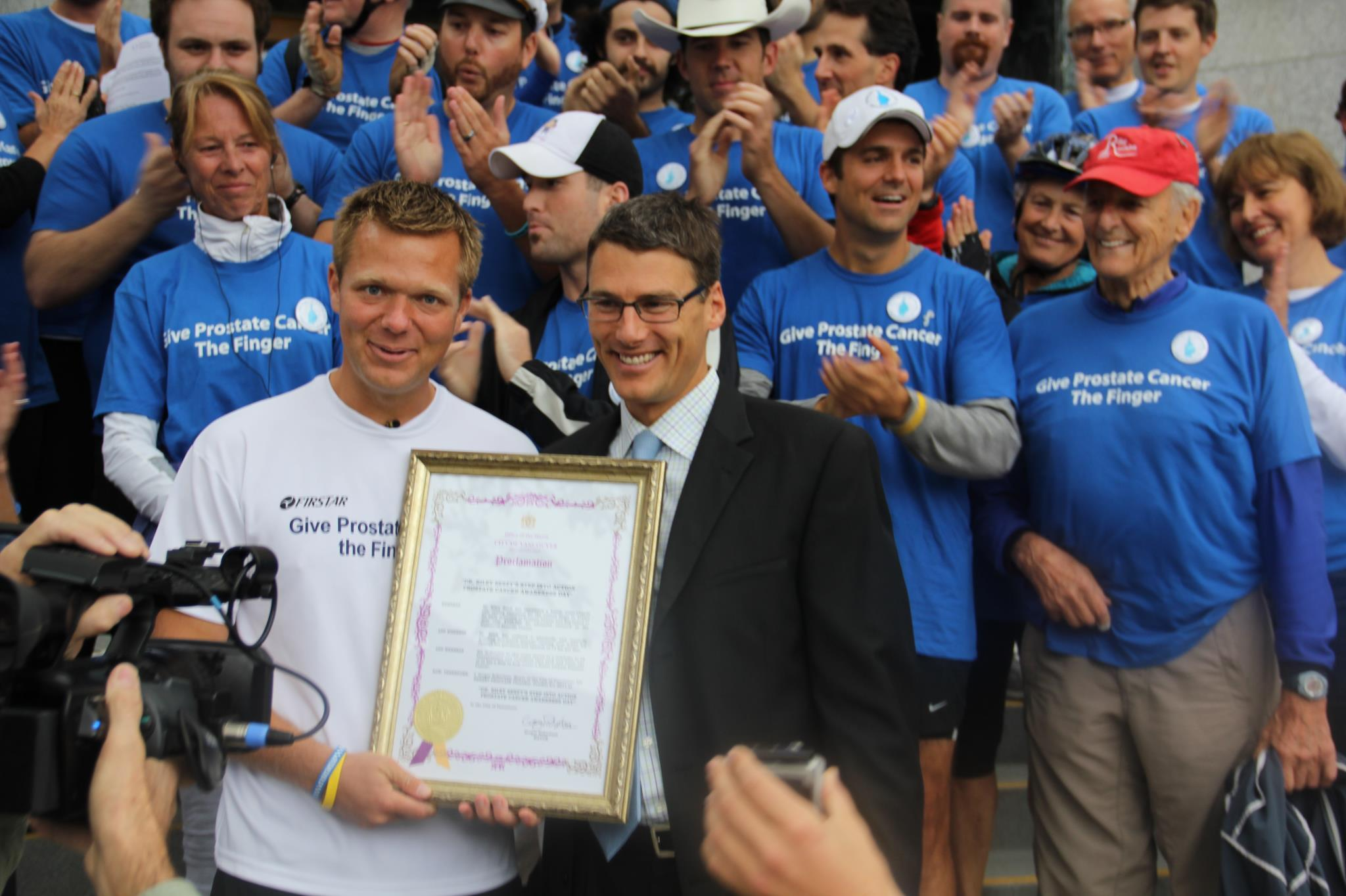 Riley receiving a Vancouver Proclamation from Vancouver Mayor, Gregor Robertson, which proclaimed October 6, 2011 Dr. Riley Senft Step Into Action Prostate Cancer Awareness Day.